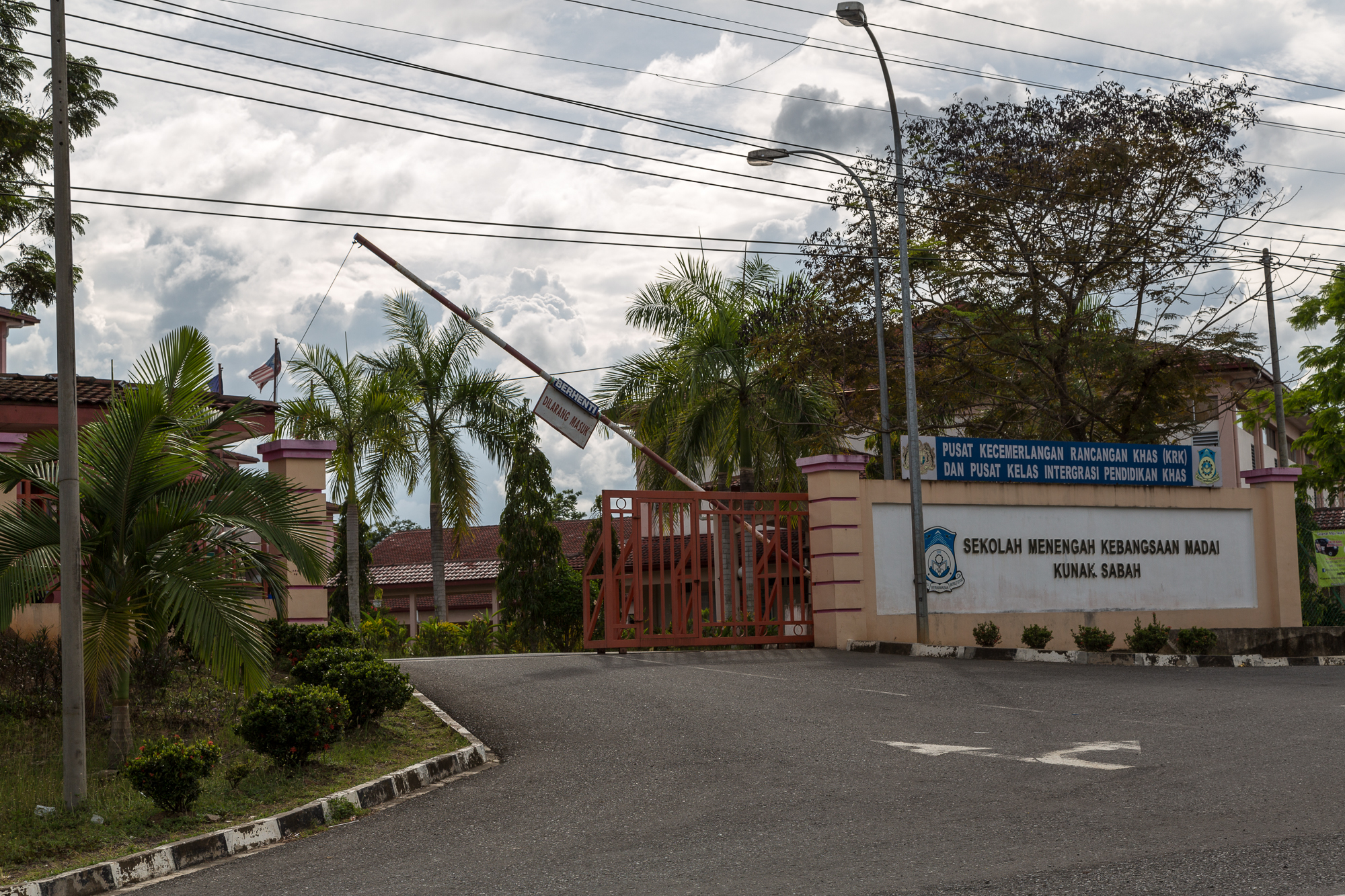 Madai, Kunak, Sabah: SMK Madai